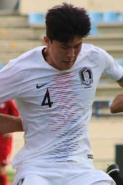 Lebanon v South Korea at the 2022 FIFA World Cup qualifiers.